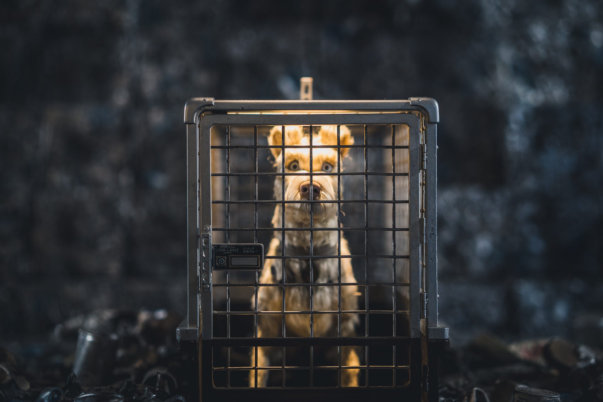 Sets from the film Isle of Dogs